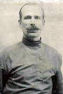 White Russian officer Pavel Petrovich Pappengut (1894–1933/34)